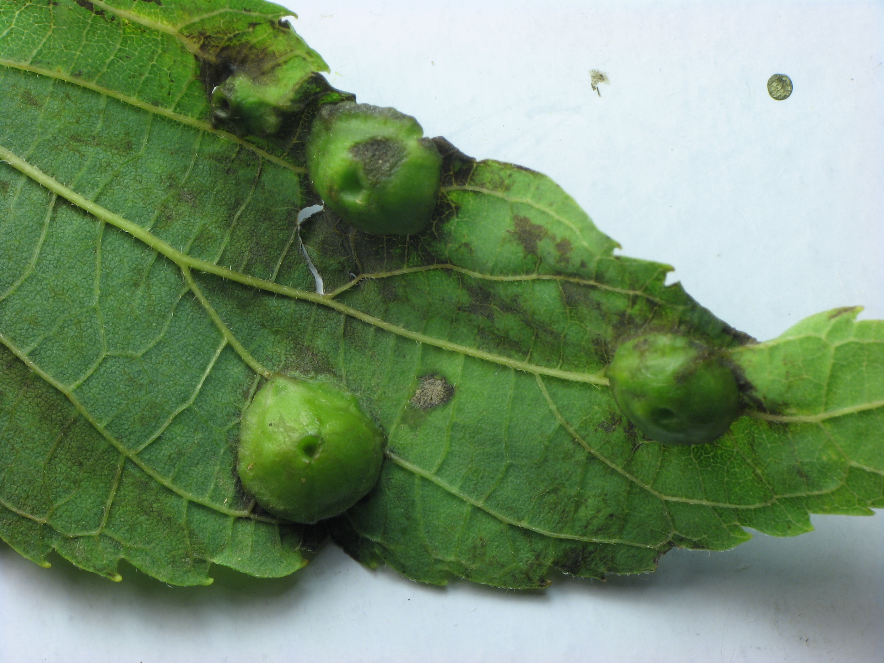 Galls made by Pachypsylla celtidisumbilicus (hackberry disc gall psyllid) on hackberry tree, Celtis Occidentalis (leaf underside). Josie Porter Farm - Stroud Township, Monroe County, Pennsylvania, USA.